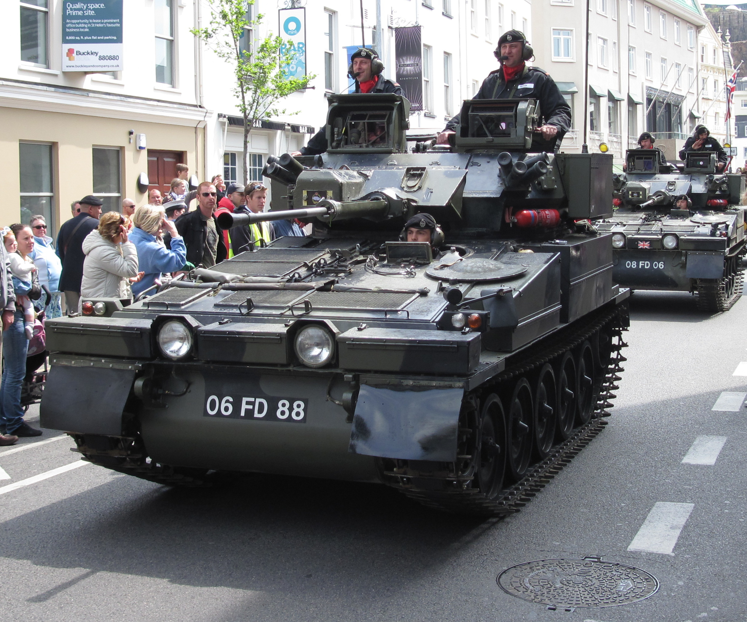 Liberation Day, 9 May 2010, Jersey